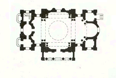 Plan of Saint Catherine Armenian church in Saint Petersburg (1771-1776). Built by Yury Felten